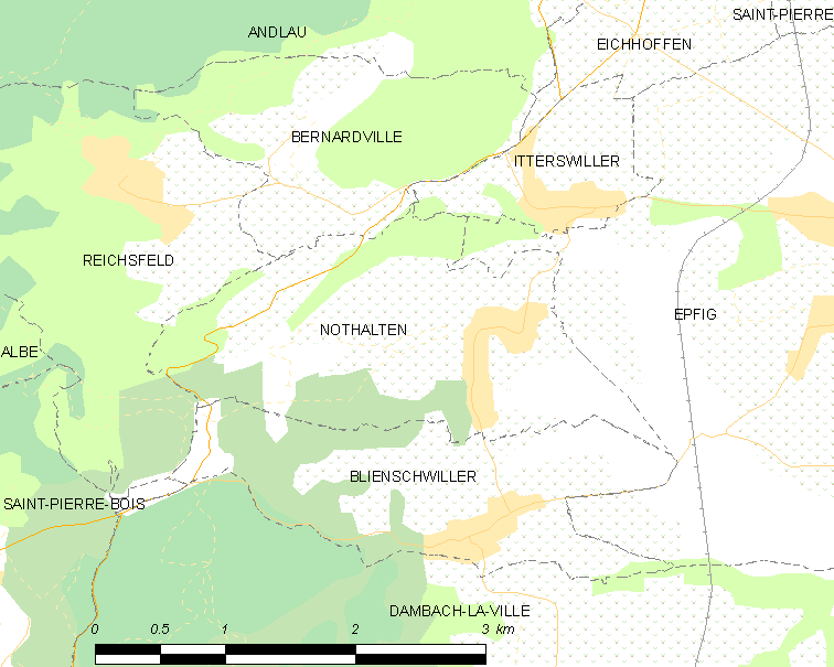 Map of French municipality